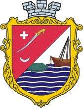 Coat of arms of Izmail